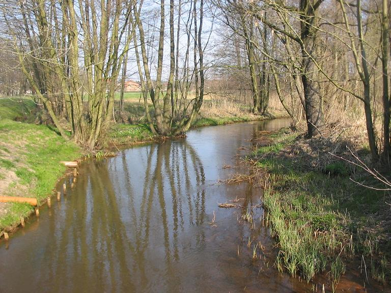 River Rossel (Elbe-tributary) in the village Thießen. Thießen is a municipality in the nature park Fläming in the the district Anhalt-Zerbst, state Saxony-Anhalt, Germany.